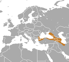 Levant Mole (Talpa levantis) range